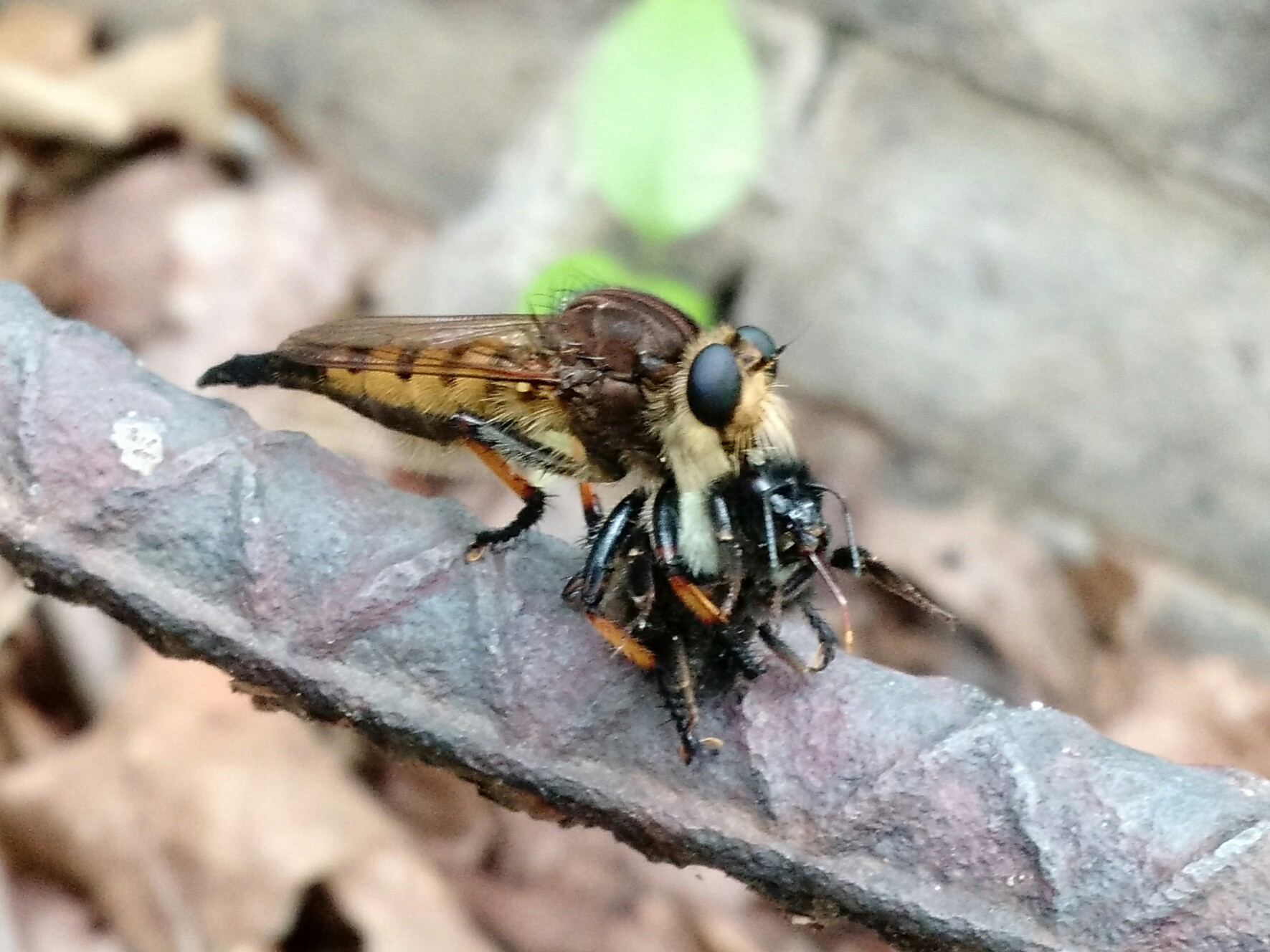 Robber Fly feeding on a bee, photographed at Chewacla State Park, Auburn, Alabama.